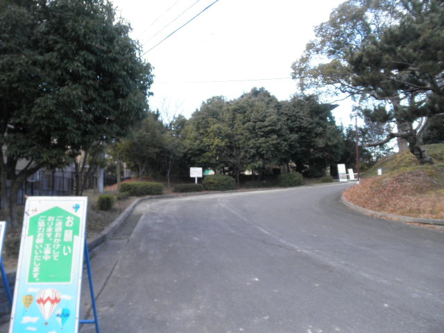 Nara reform school entrance